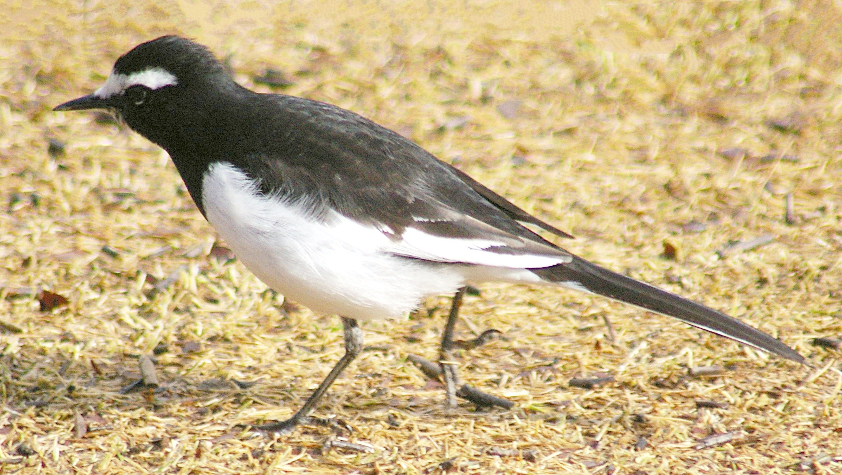 japanese wagtail (segurosekirei). Tsukuba, Japan, 2007